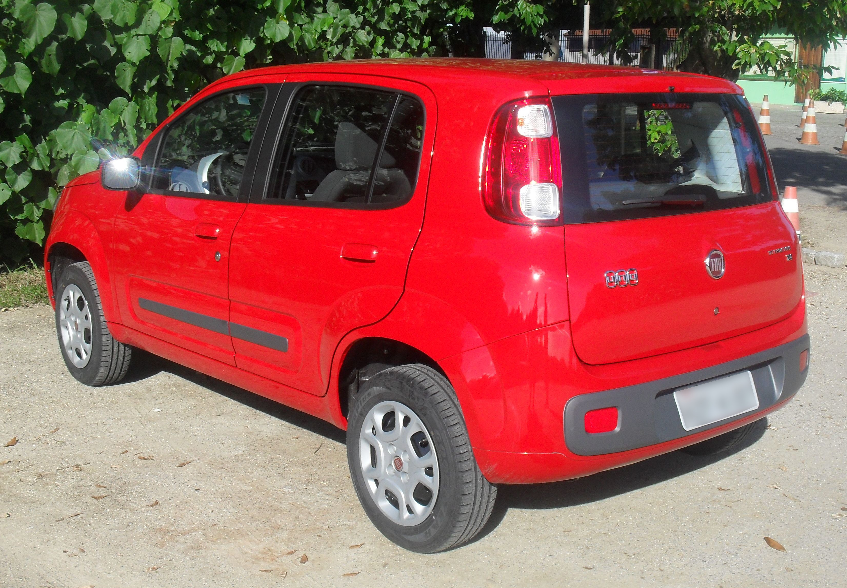 Fiat Novo Uno 1.4